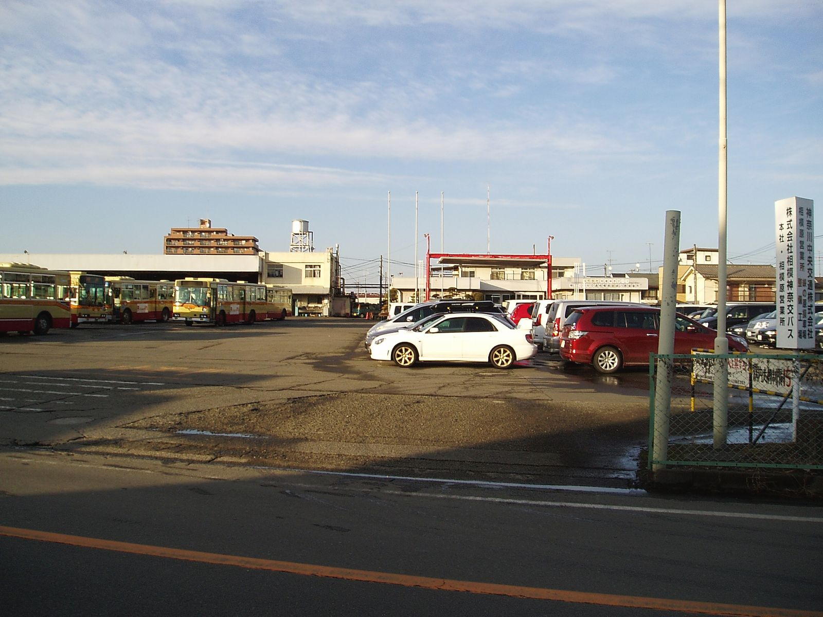 Kanachu Sagamihara Branch(Hakenohara)